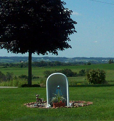 Photo by Joe Schallan, August 15, 2004.